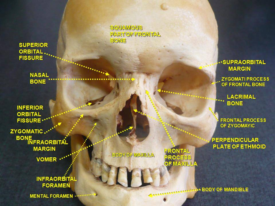 Anatomical dissections